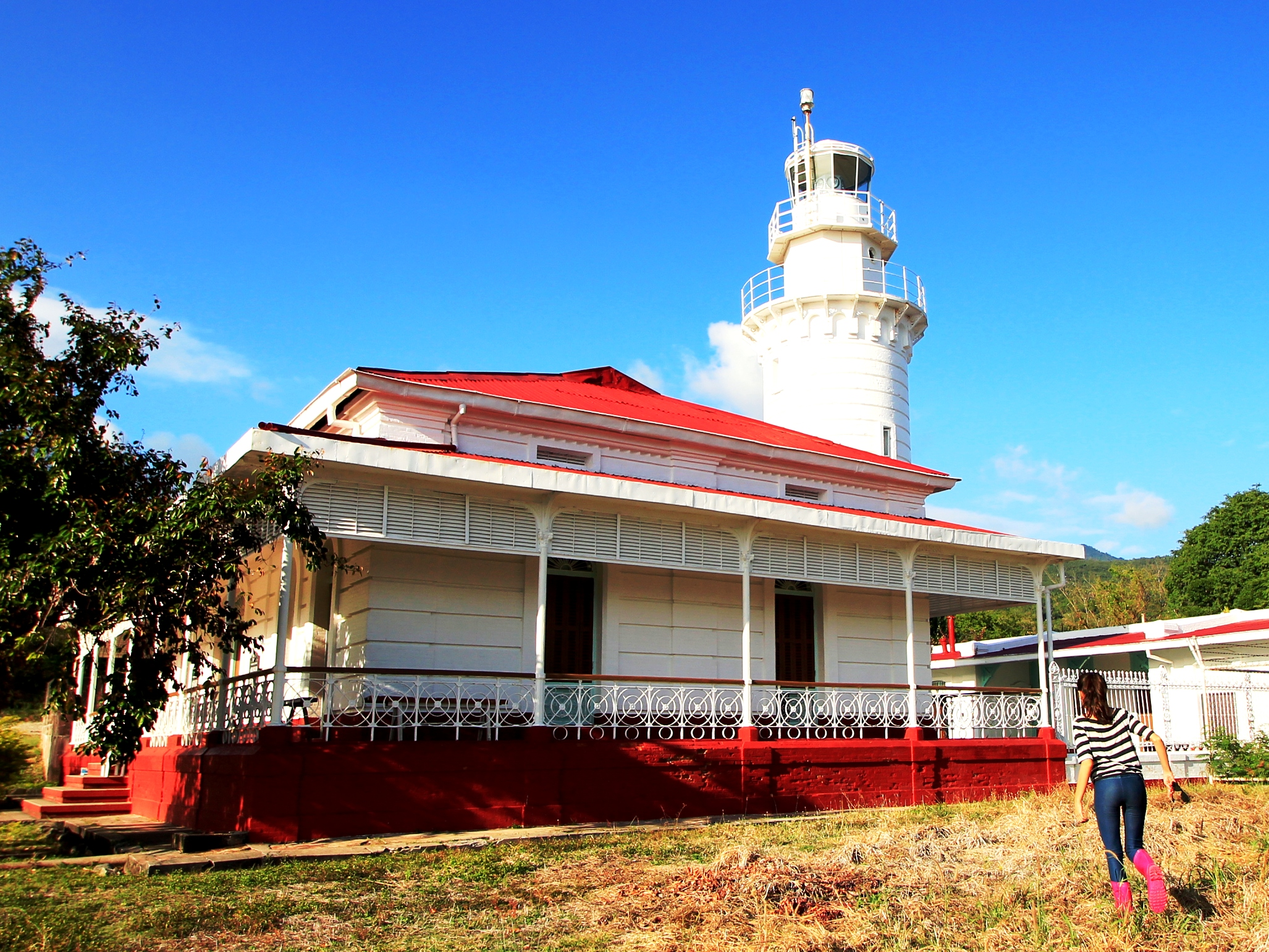 This lighthouse in Lobo, Batangas guides ships plying the Verde Island Passage